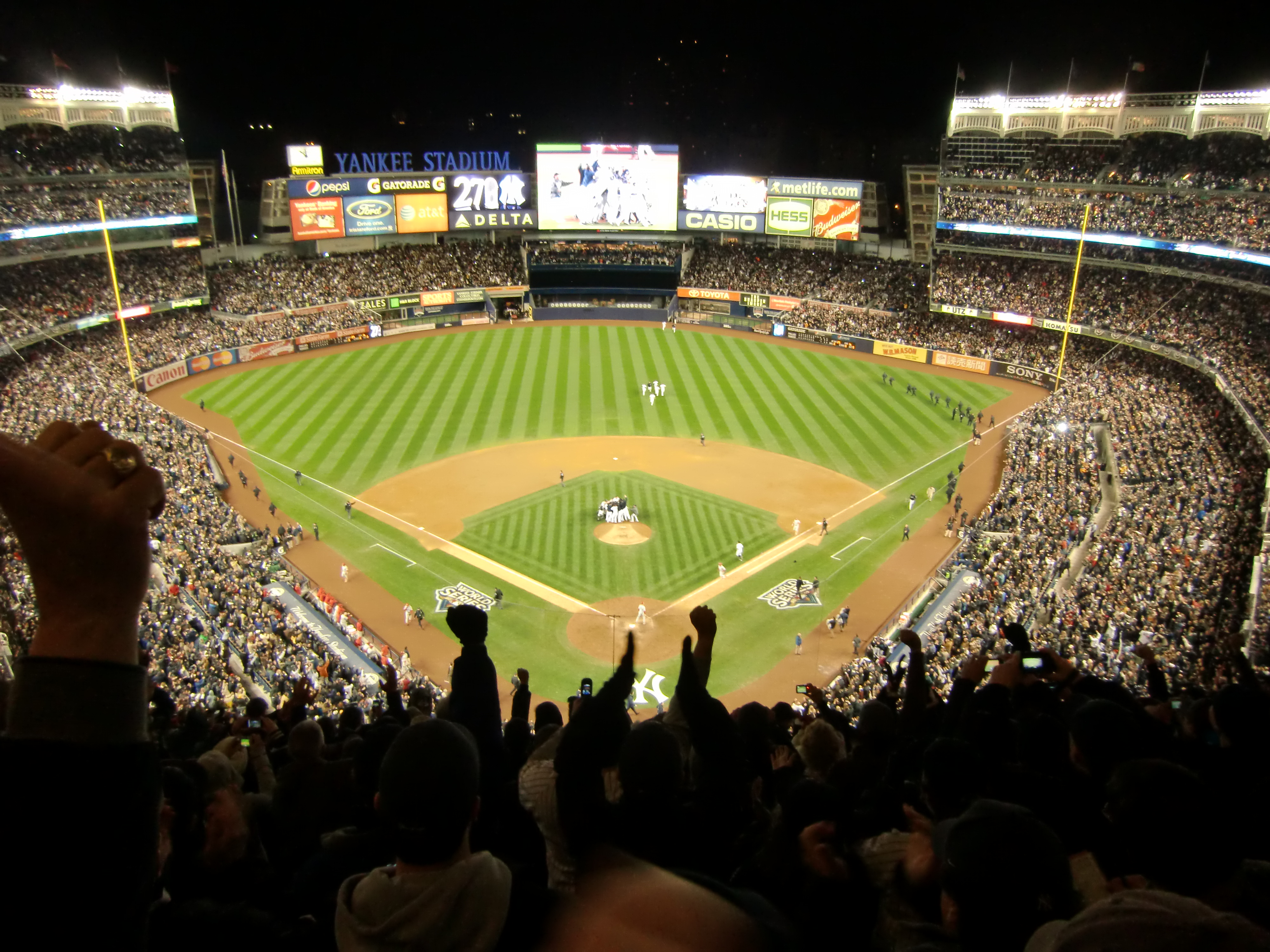 Yankee Stadium